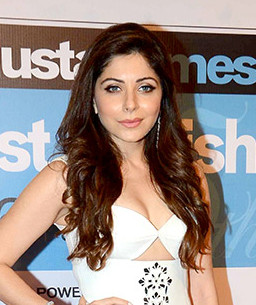 Singer Kanika Kapoor at 'Hindustan Times Most Stylish Awards 2016'.